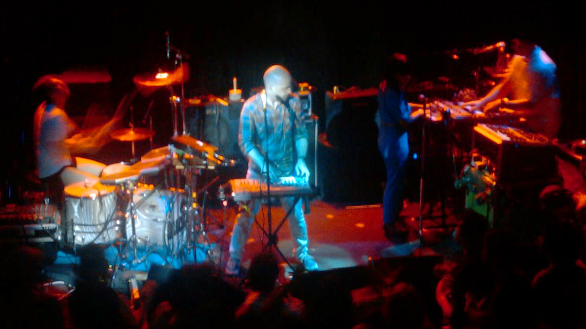 The Juan MacLean performing on the DFA + Kompakt Tour at Nectar Lounge in Seattle, Washington, United States